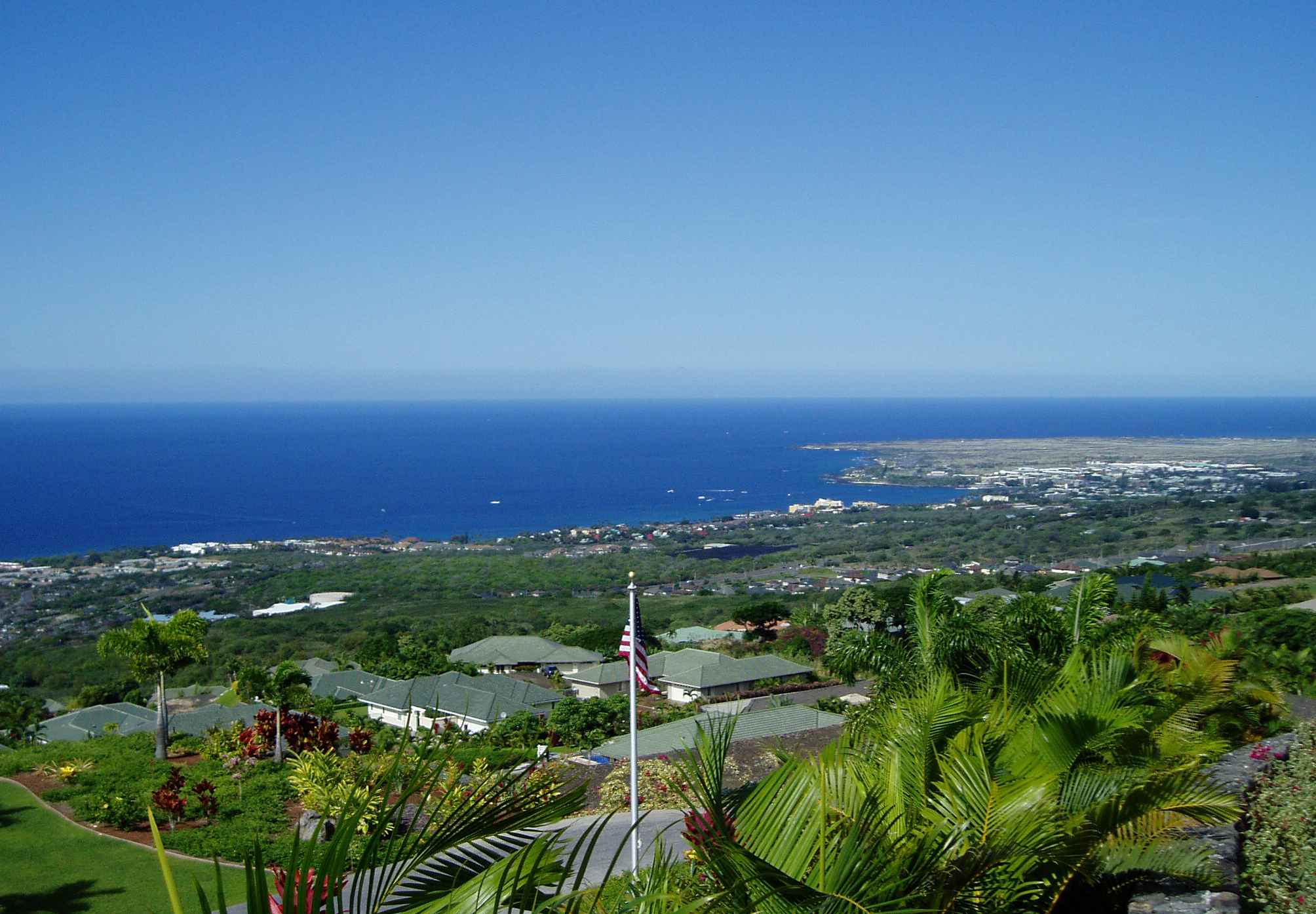 Kona Bay, Hawaii from Mauka. Near Holualoa.